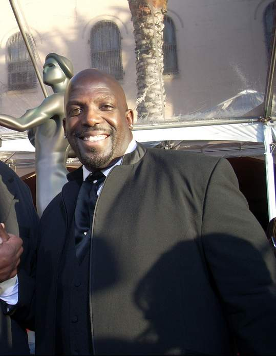 Actor Kevin "Dot-Com" Brown, star "30 Rock", at the 15th Screen Actors Guild Awards